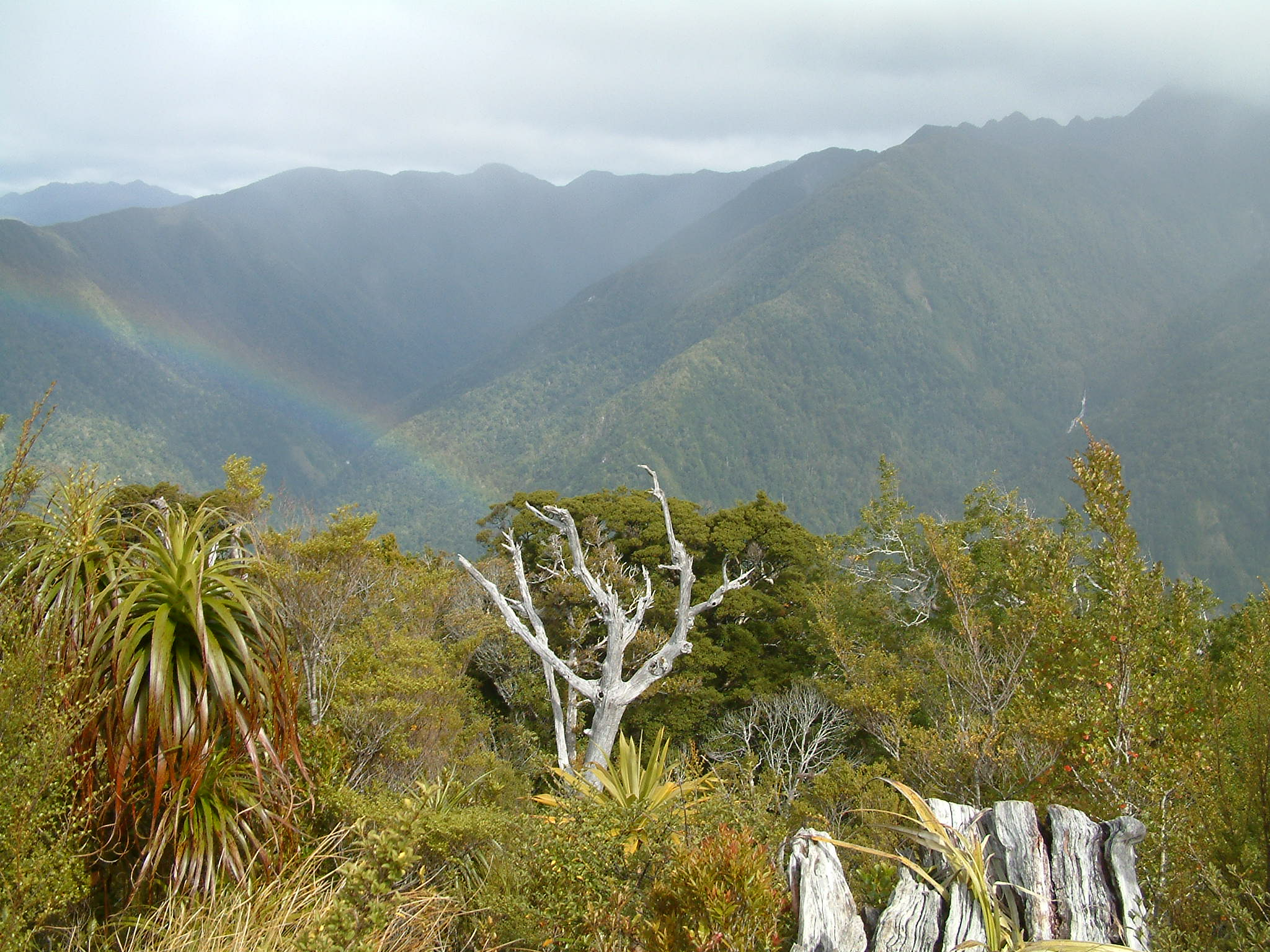 The sight on the surrounding mountains near the highest point of the Heaphy Track, South Island, New Zealand